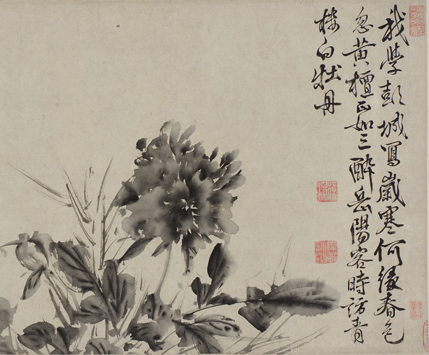 Twelve flowers and poems 16th century Xu Wei , (Chinese, 1521-1593) Ming dynasty Ink on paper H: 37.1 W: 718.8 cm China F1954.8